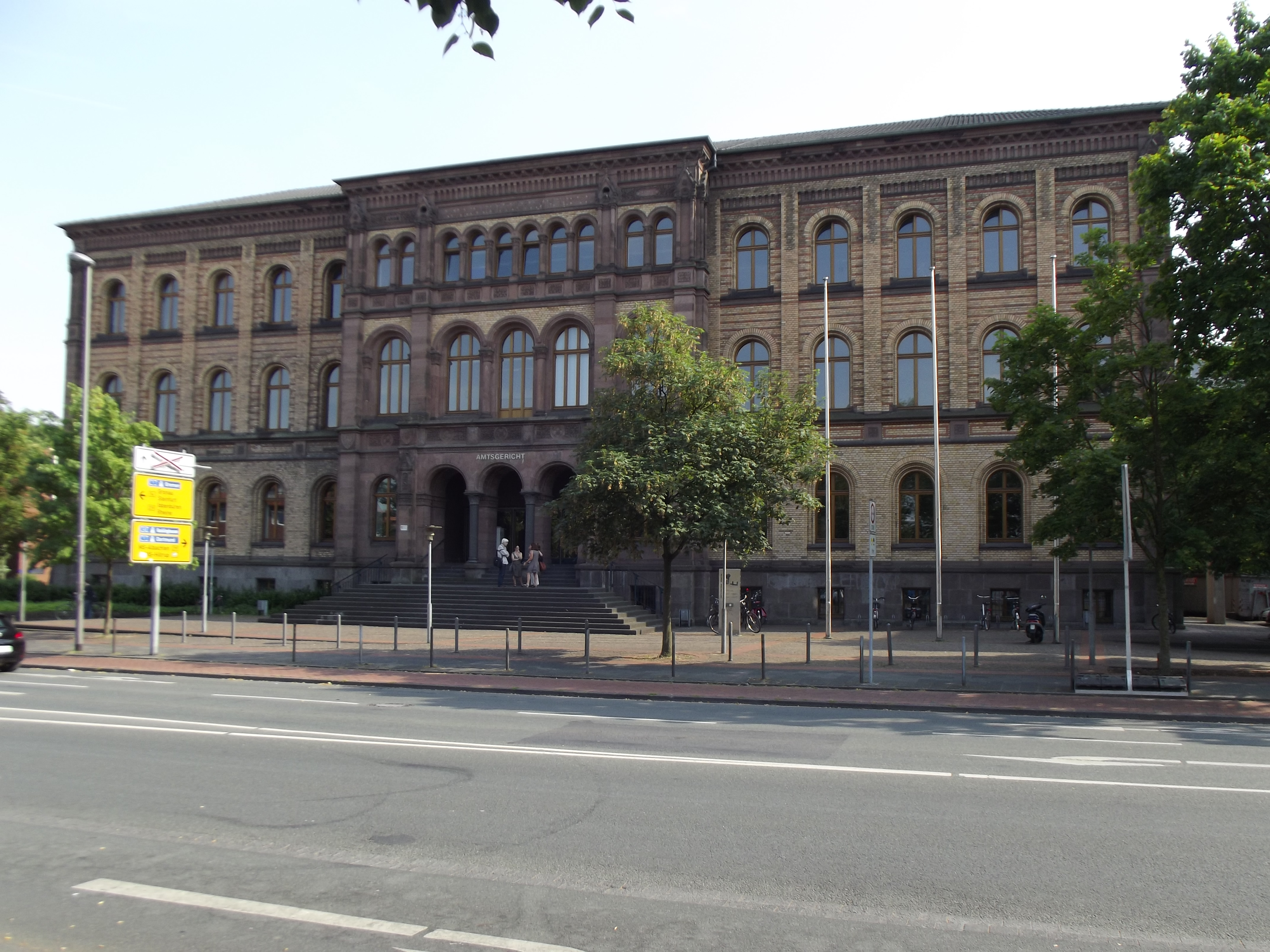 The "Amtsgericht" as seen from the "Schlossplatz"